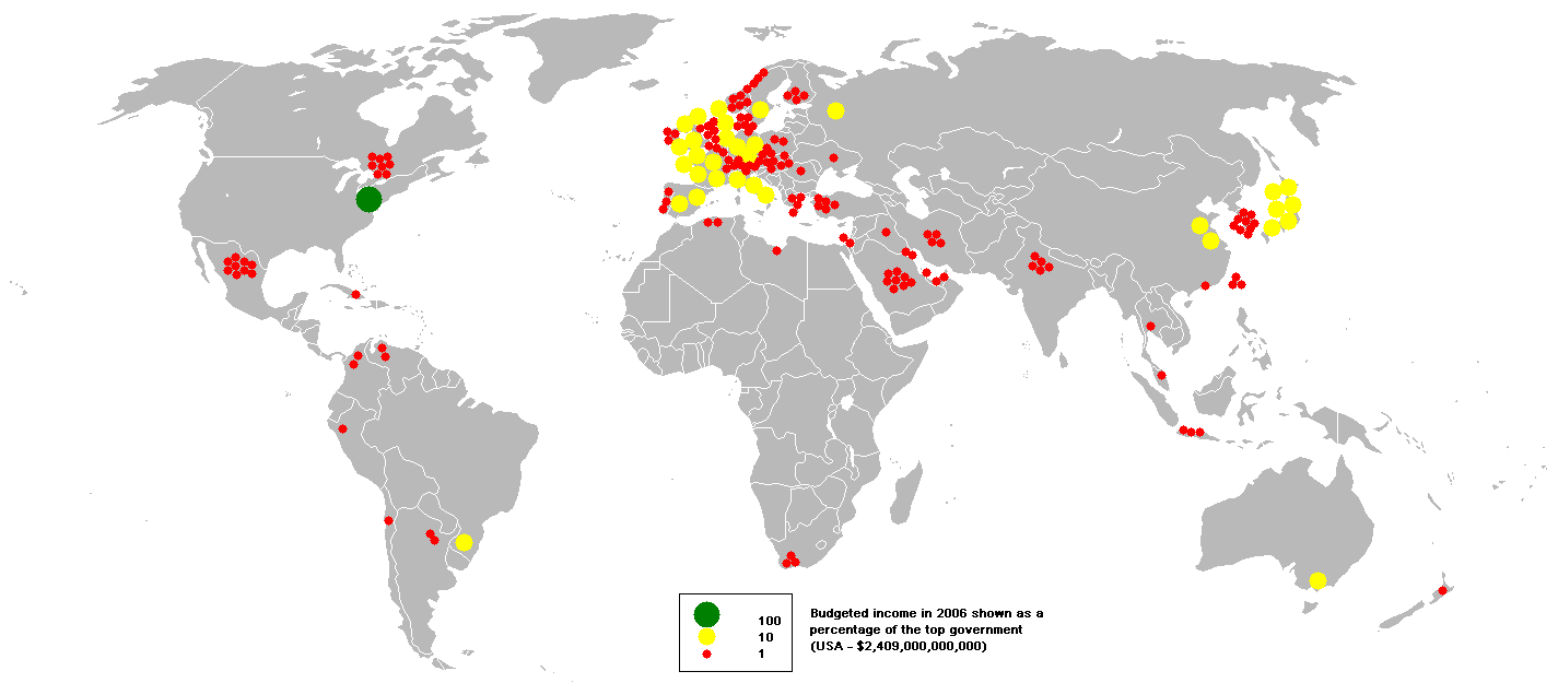 This bubble map shows the global distribution of budgeted tax and non-tax receipts in 2006 as a percentage of the top government (USA - $2,409,000,000,000). This map is consistent with incomplete set of data too as long as the top market is known. It resolves the accessibility issues faced by colour-coded maps that may not be properly rendered in old computer screens. Data was extracted on 3rd July 2007 from Based on :Image:BlankMap-World.png